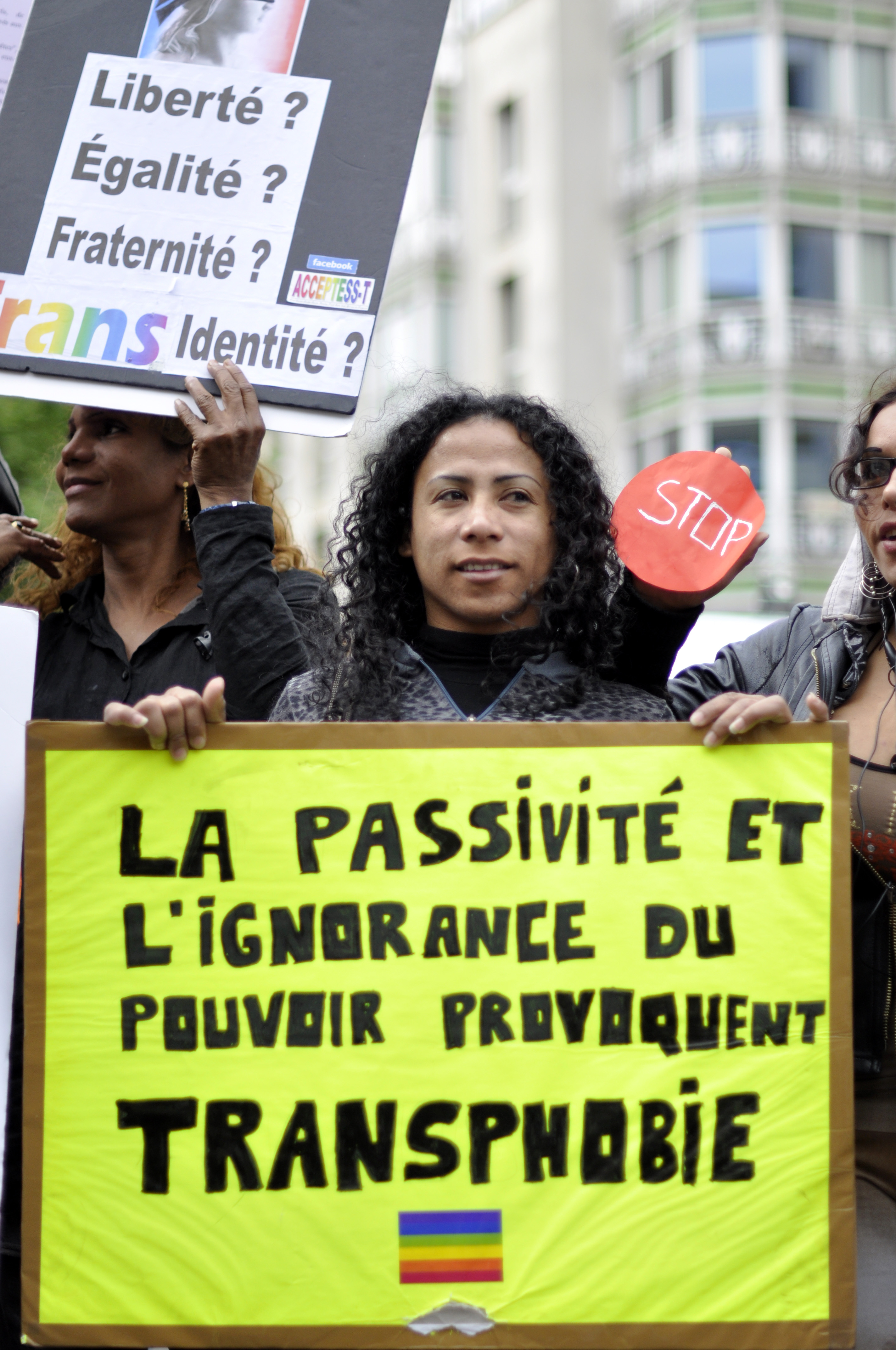 International day against homophobia, biphobia and transphobia in Paris, May 17, 2012.